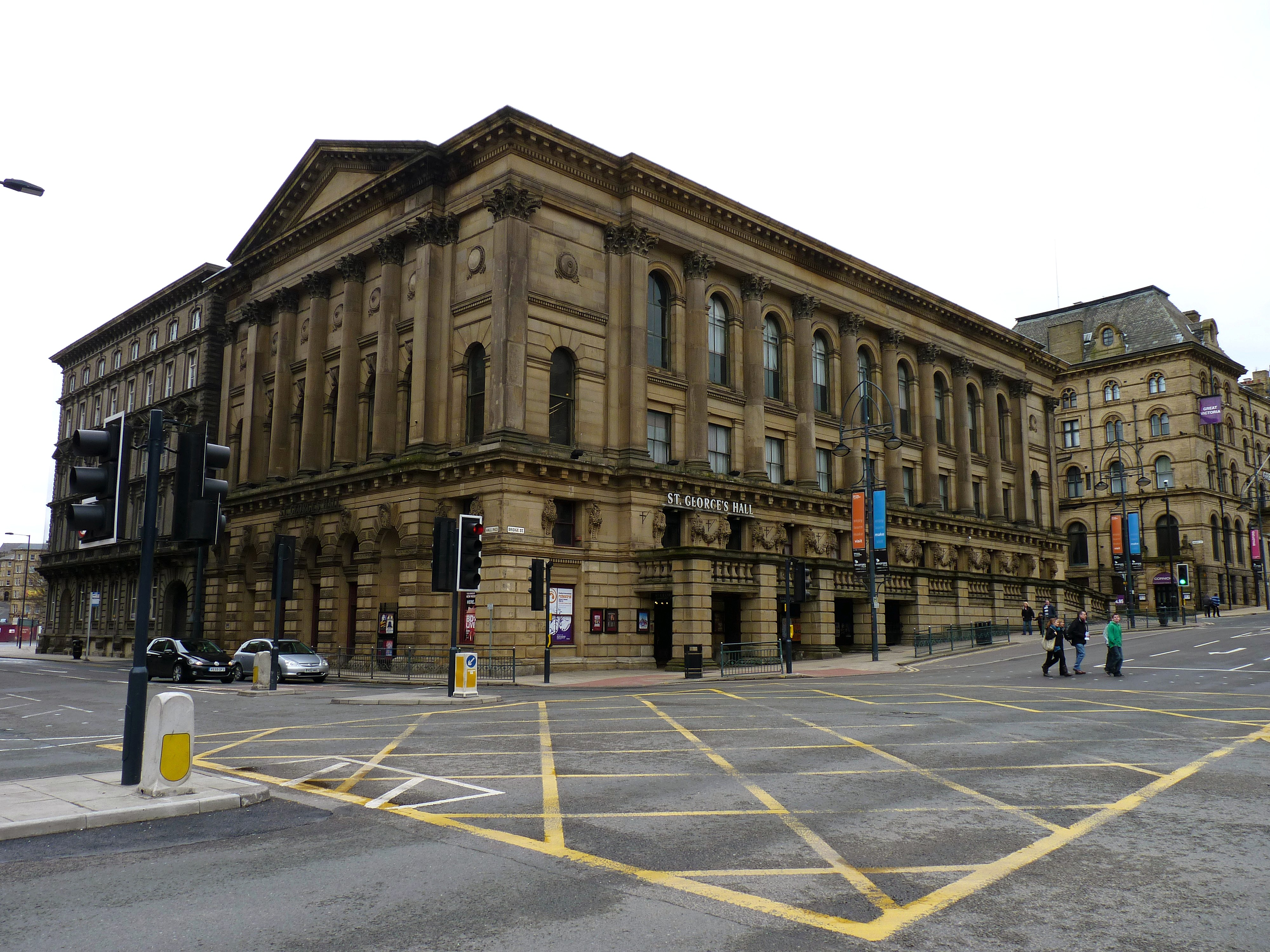 St. George's Hall